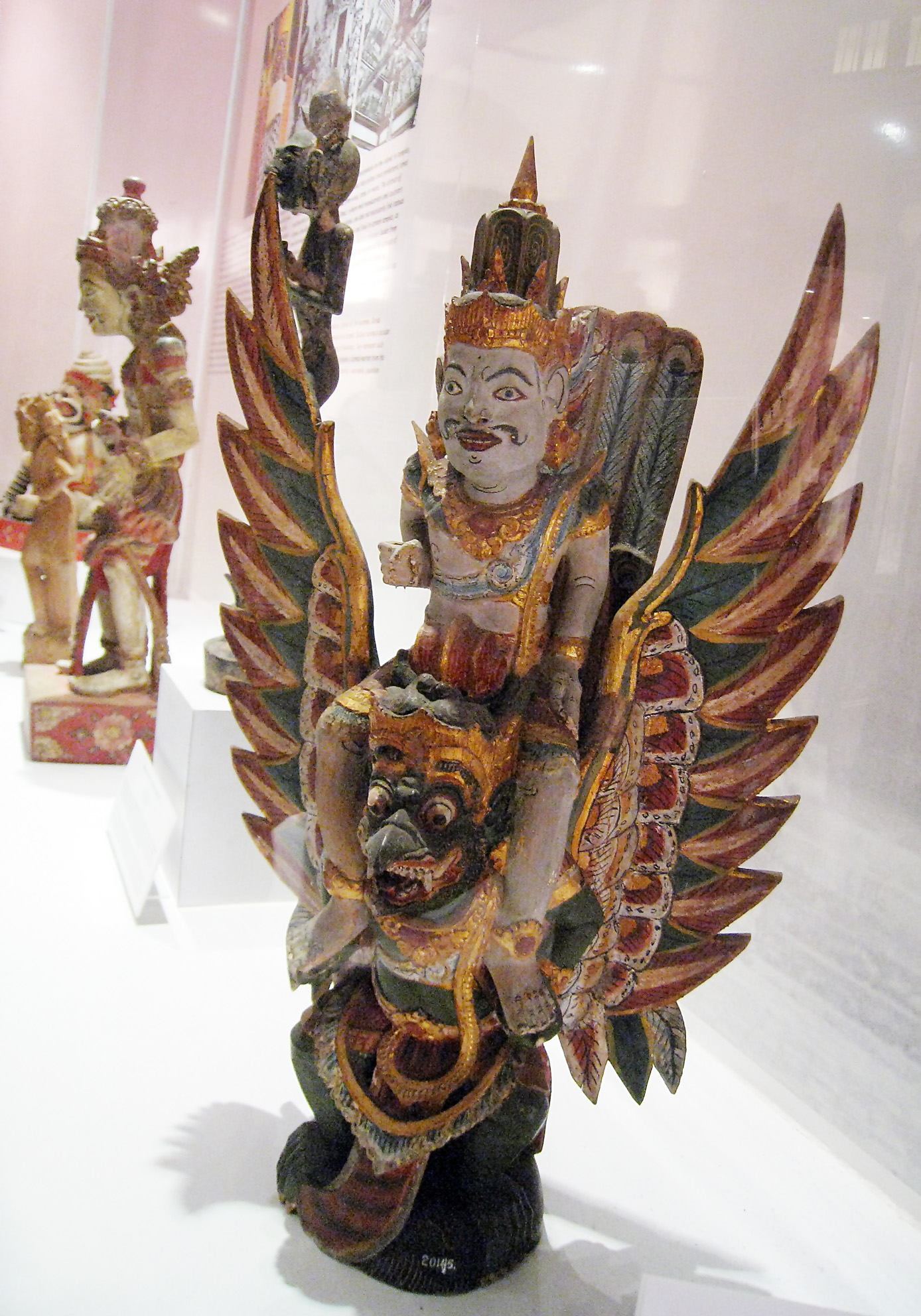 Wooden statue of Wishnu riding Garuda from Bali, National Museum of Indonesia, Jakarta.